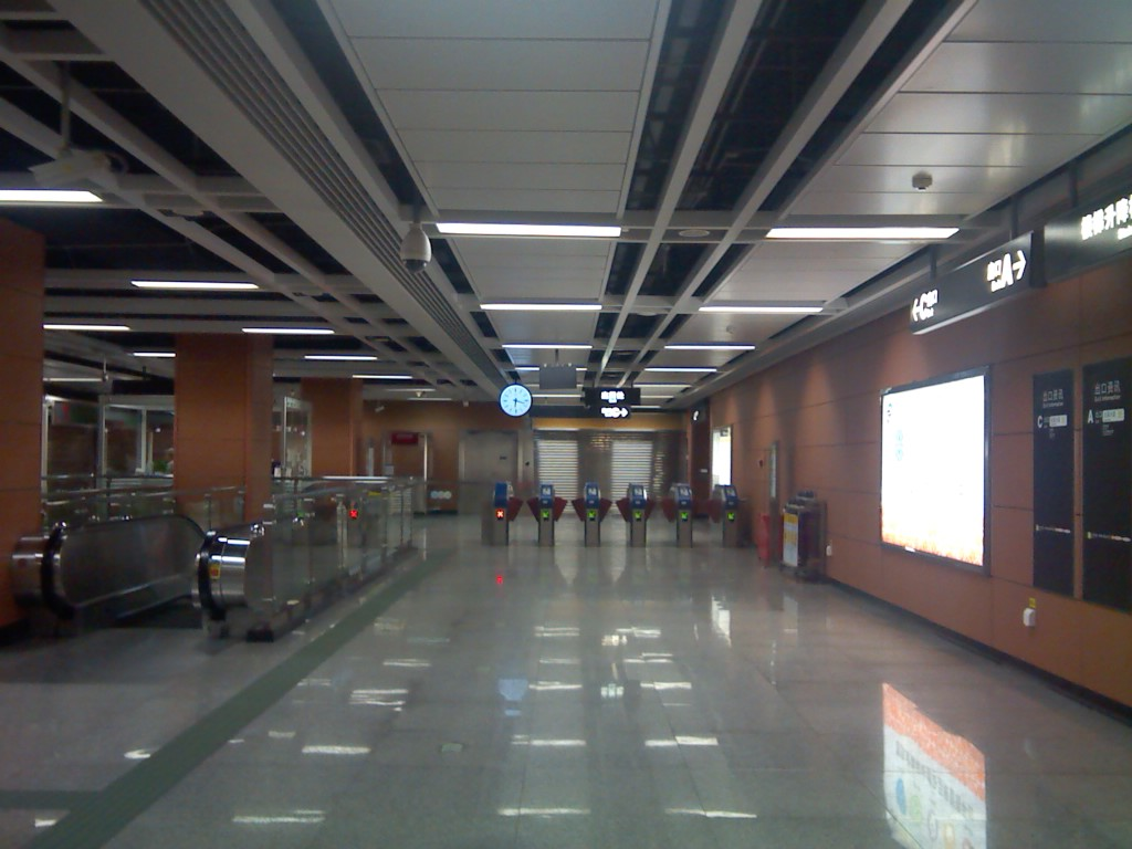 龙溪站车站站厅